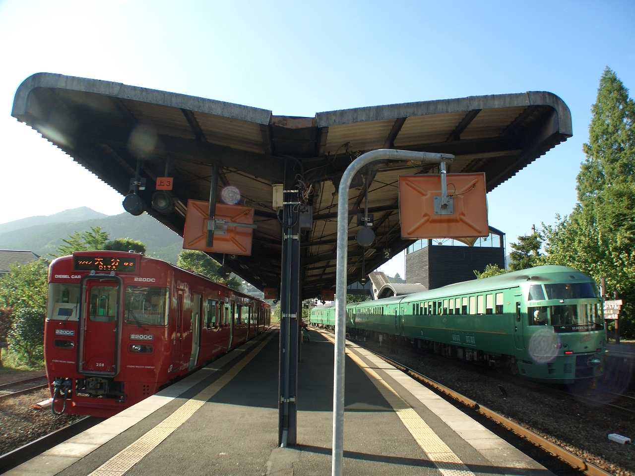 Yufuin sta. No.2-3 (JR-Kyushu Kyudai Line)